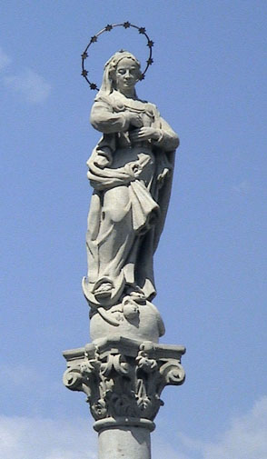 Maria column (Mug Mary). Miskolc, Hungary